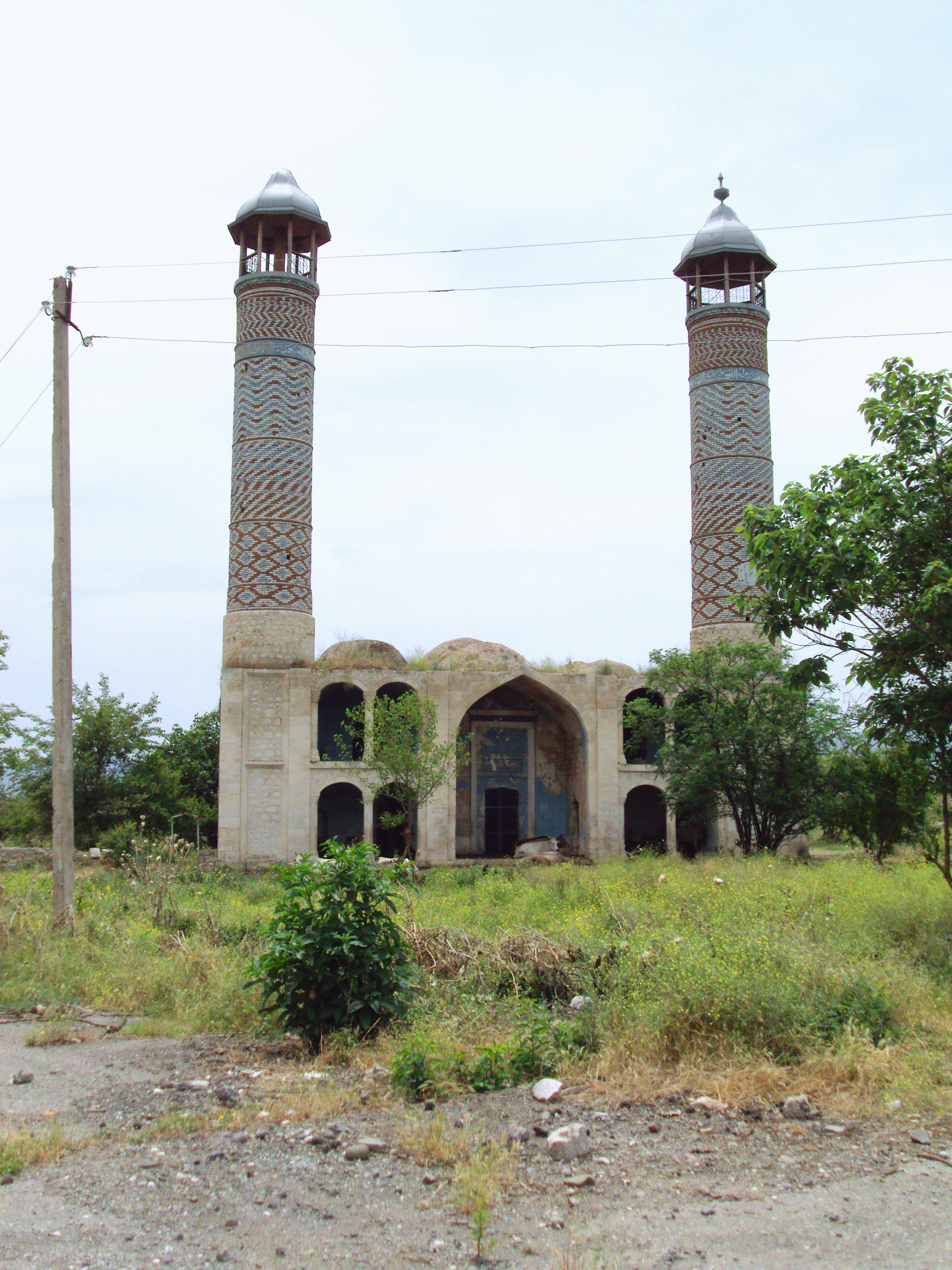 Agdam Mosque. Built by Azerbaijani architect Karbalayi Safikhan Karabakhi in 1868.